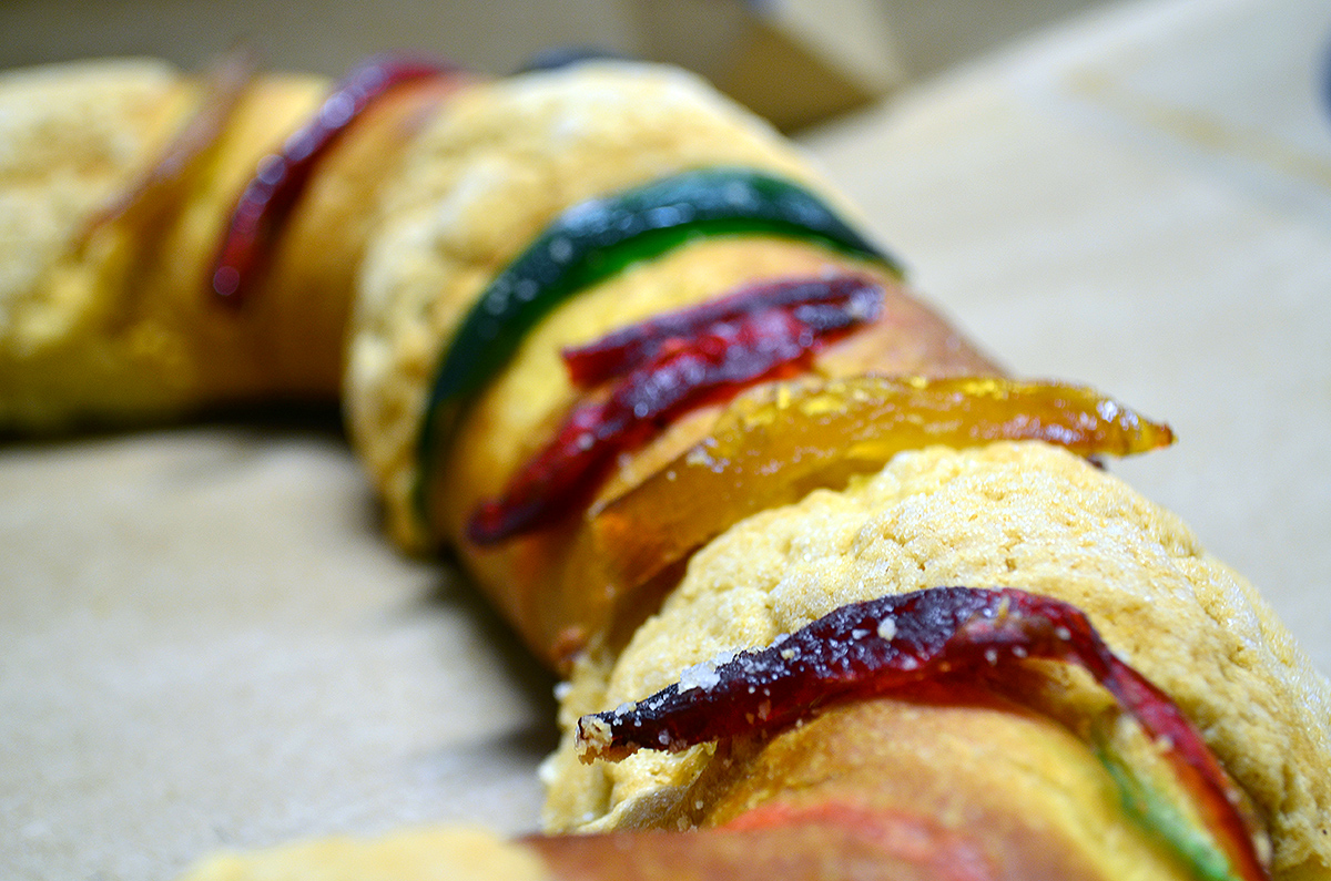 A king cake (sometimes rendered as kingcake, kings' cake, king's cake, or three kings cake) is a type of cake associated with the festival of Epiphany in the Christmas season in a number of countries, and in other places with the pre-Lenten celebrations of Mardi Gras / Carnival. In the pic, a king cake from Mexico. Tags: rosca,reyes,close-up,Mexico